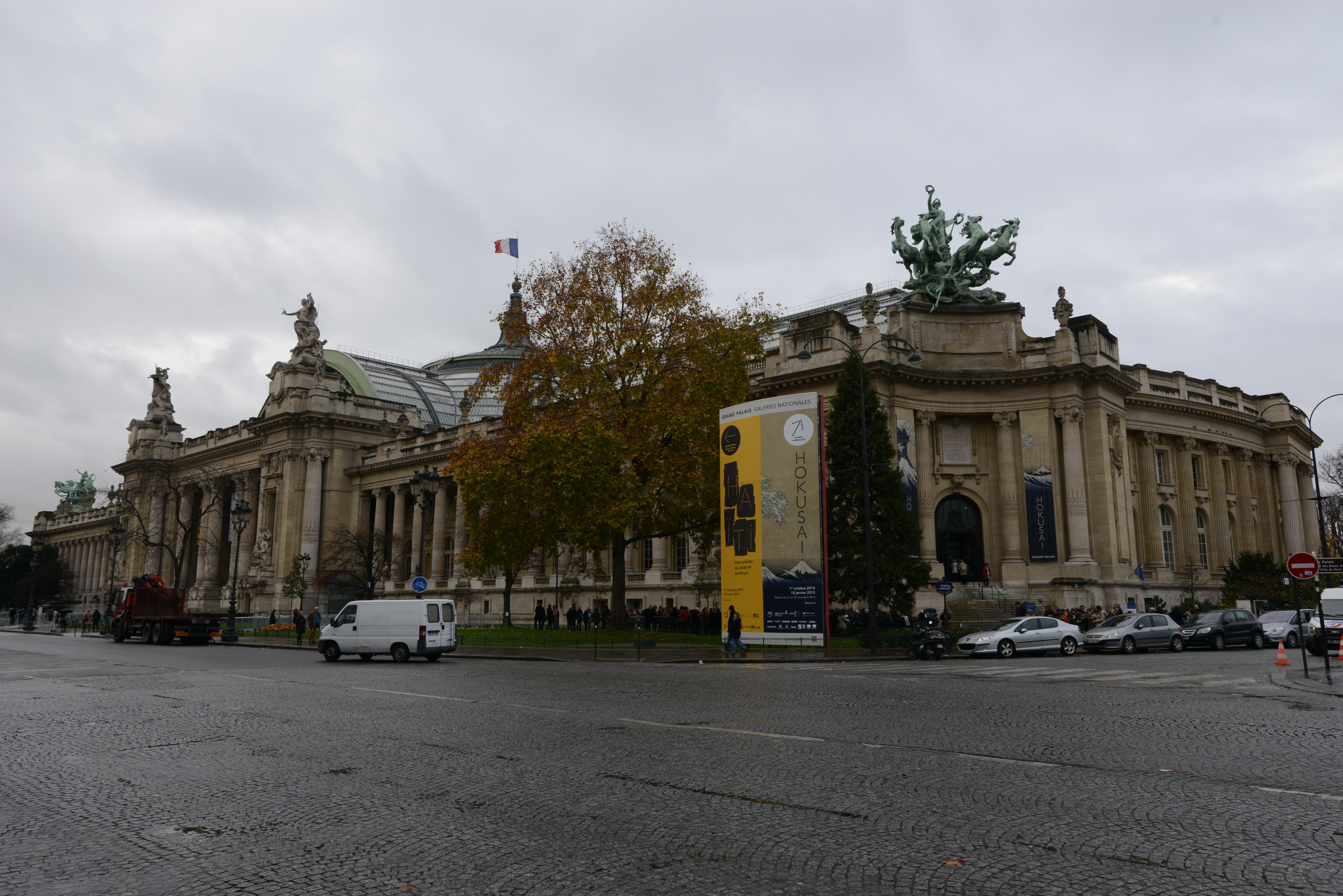 The galeries nationales du Grand Palais (Grand Palais National Galleries) are museum spaces located in the Grand Palais in the 8th arrondissement of Paris. They serve as home to major art exhibits and cultural events programmed by the Réunion des musées nationaux et du Grand Palais des Champs-Élysées (RMN), and are open six days a week.